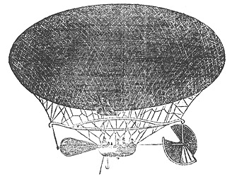 The Balloon-Hoax From 1844, so in the public domain